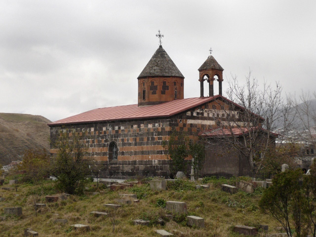 The Black Church in Vanadzor.